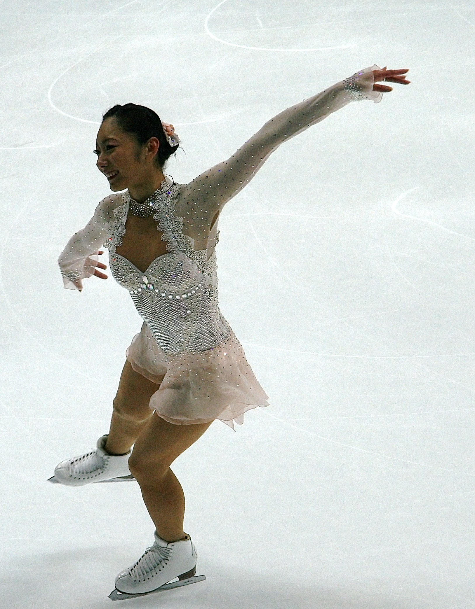 Miki Ando at the 2011 World Figure Skating Championships